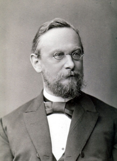 Karl Gustav Adolf Siegfried (1830-1903) german protestant Theologian